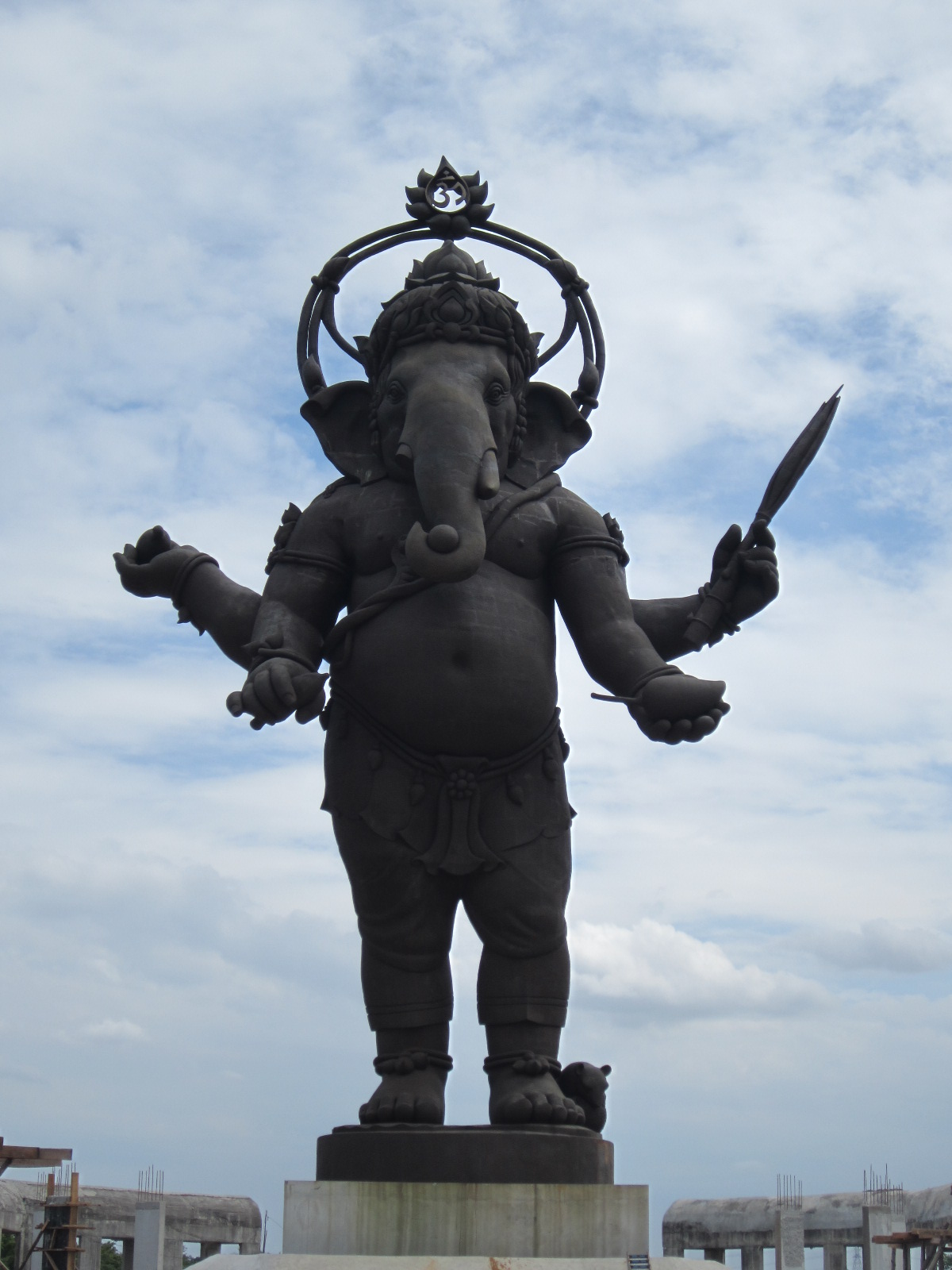 Bronze Ganesh, the largest in the world.